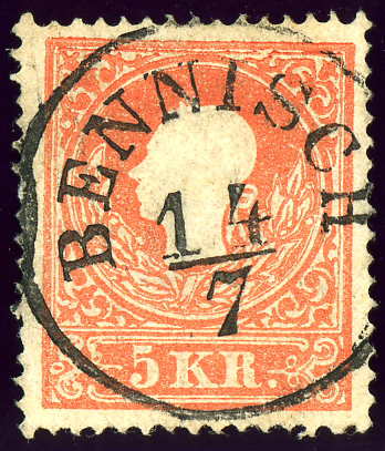 Austrian KK 5 kreuzer stamp, issue 1859, cancelled at BENNISCH (now Horni Benešov), Silesia, Czech R.